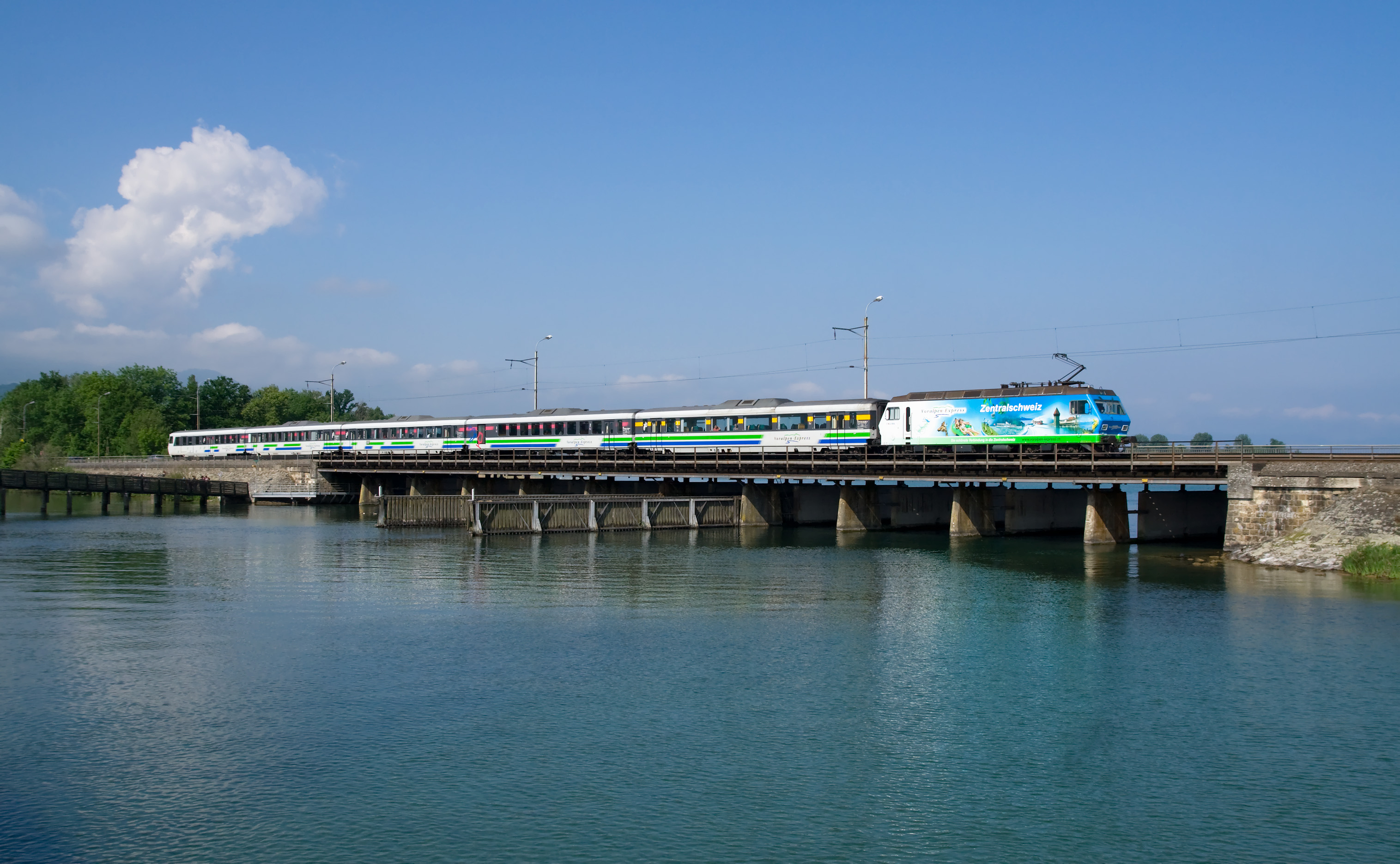 Voralpen-Express pulled by an Re 456 promoting the Voralpenexpress itself on the dam between Pfäffikon SZ and Rapperswil